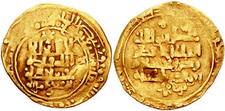 Coin of the Seljuq ruler Malik-Shah I (r. 1072-1092).